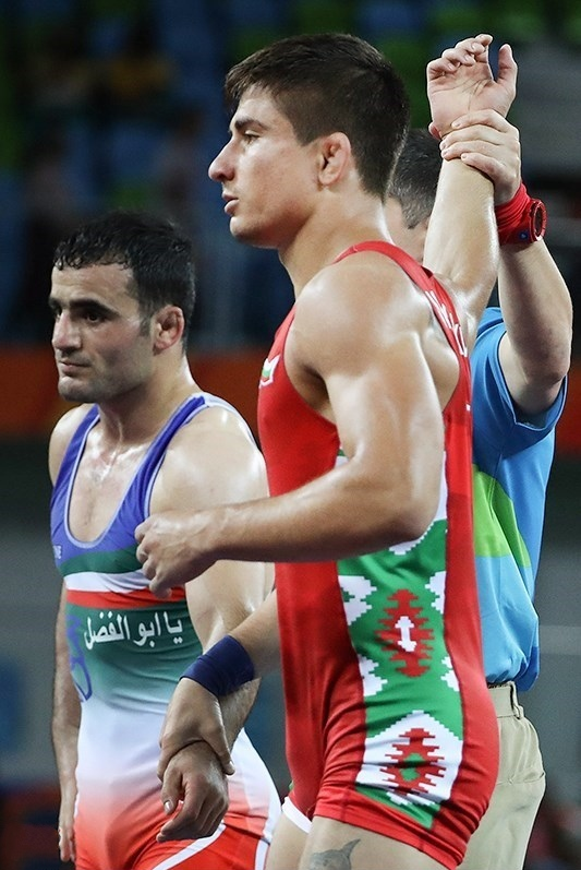 2016 Summer Olympics, Men's Freestyle Wrestling 65 kg